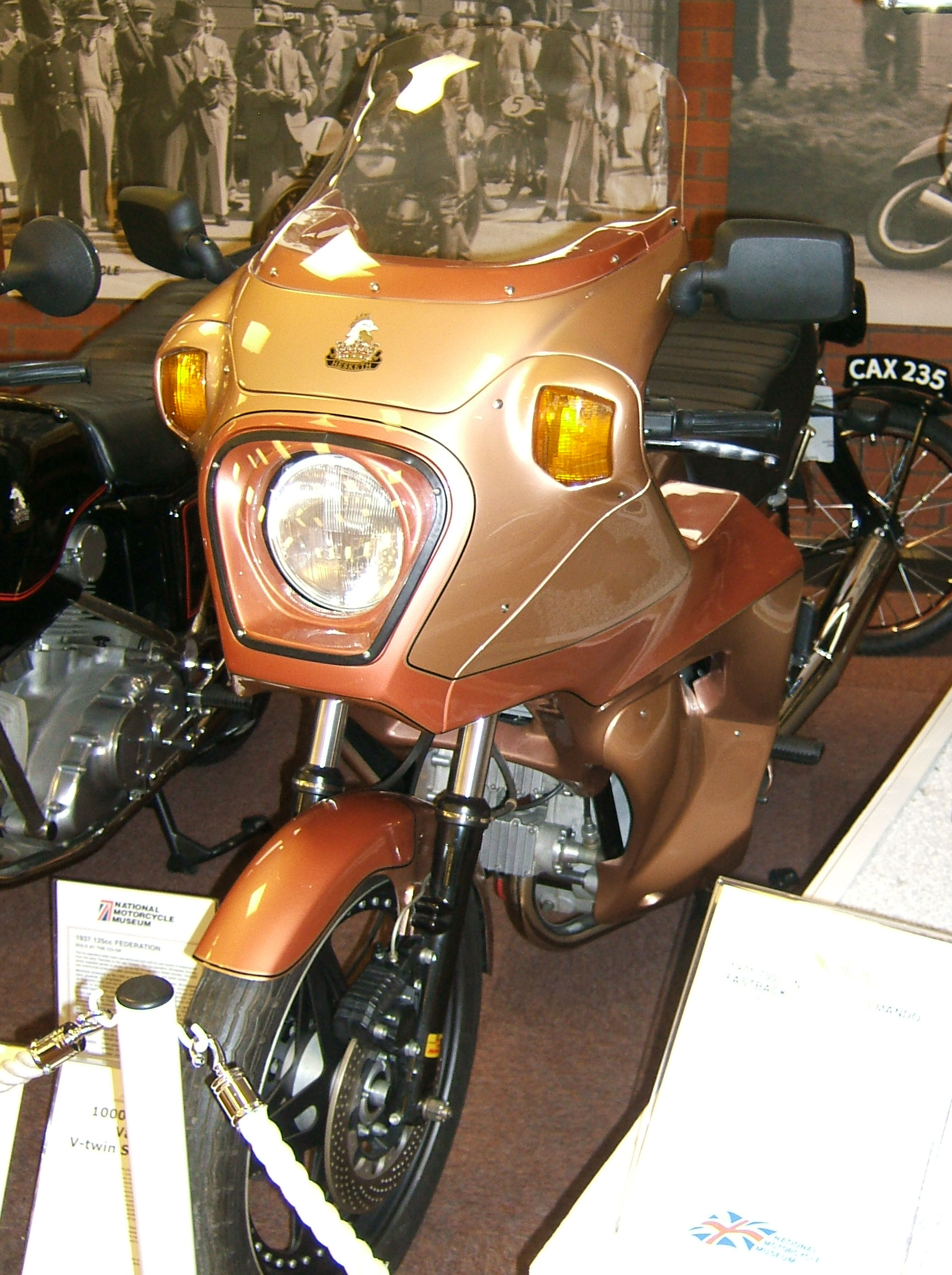 A 1000cc Hesketh V-twin Super Tourer motorcycle. In the National Motorcycle Museum, Solihull, West Midlands, United Kingdom.